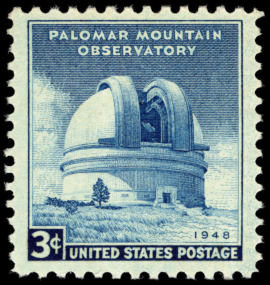 Palomar Mountain Observatory 3-cent 1948 issue U.S. stamp.